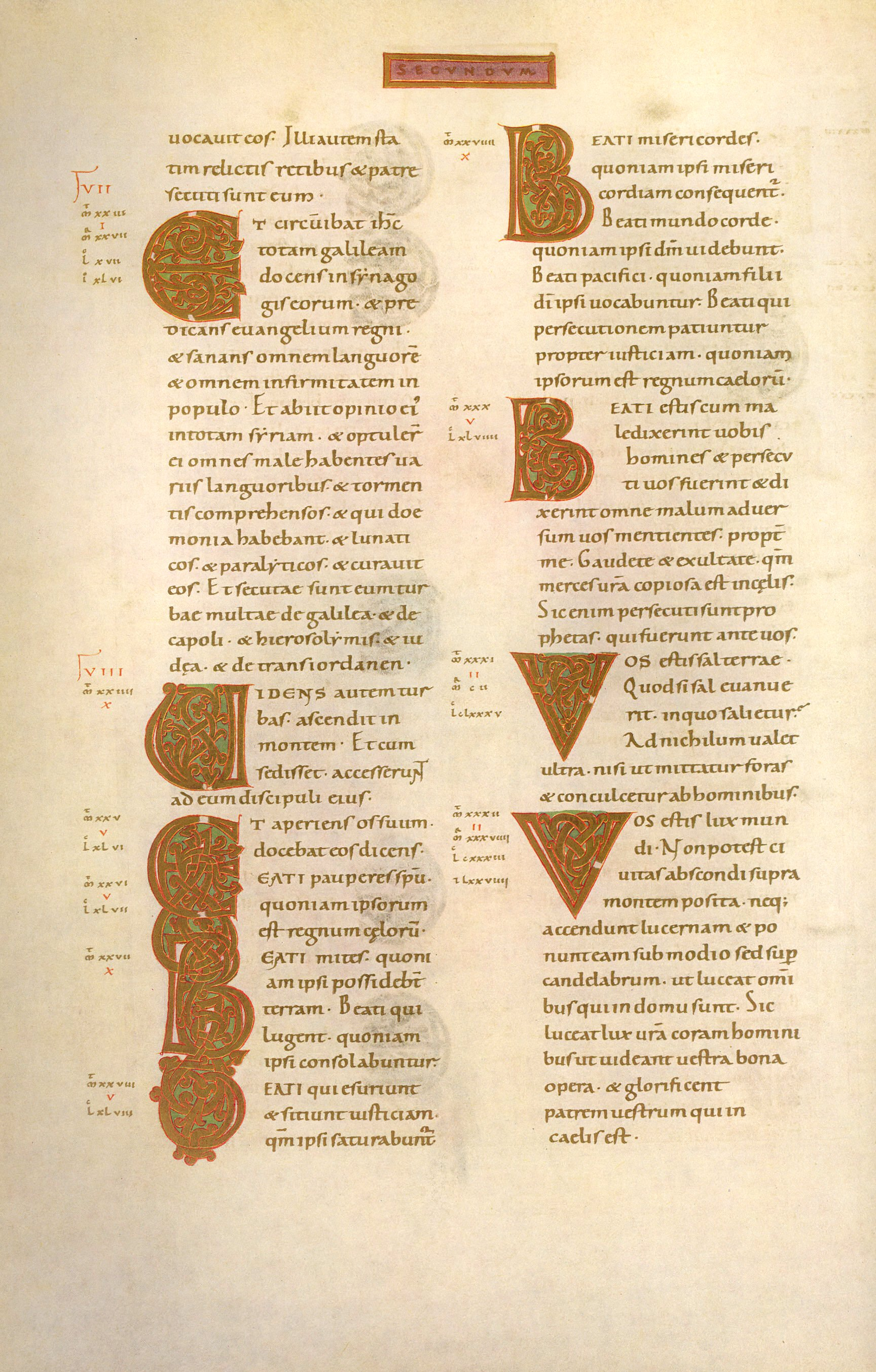 Codex Aureus Epternacensis (Enhanced original scan)